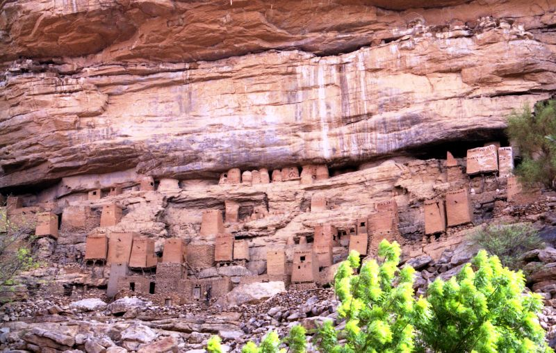 Cliff dwellings in the Bandiagara escarpment. Teli.